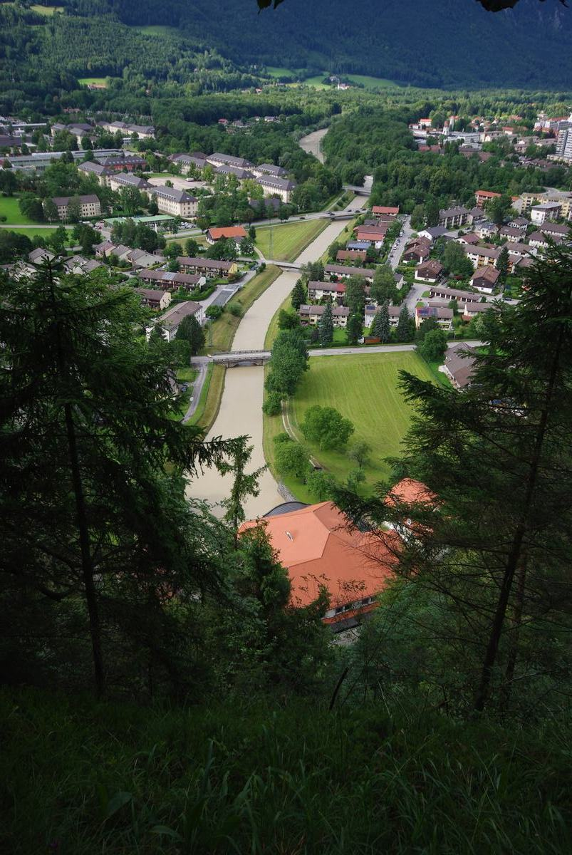 Saalachkraftwerk Bad Reichenhall